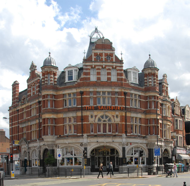 The Salisbury (pub), Harringay, north London.